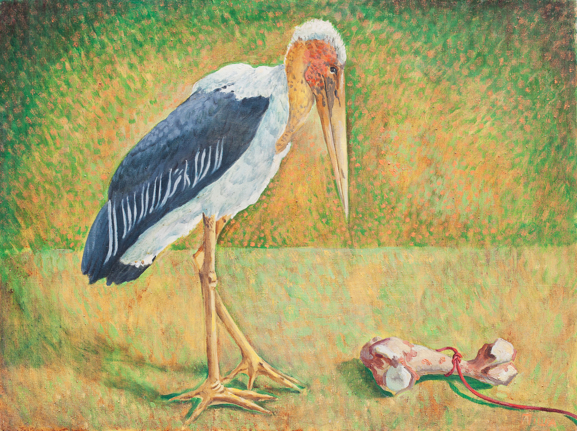 Painting be Pisha Larysa How to catch marabou 2000